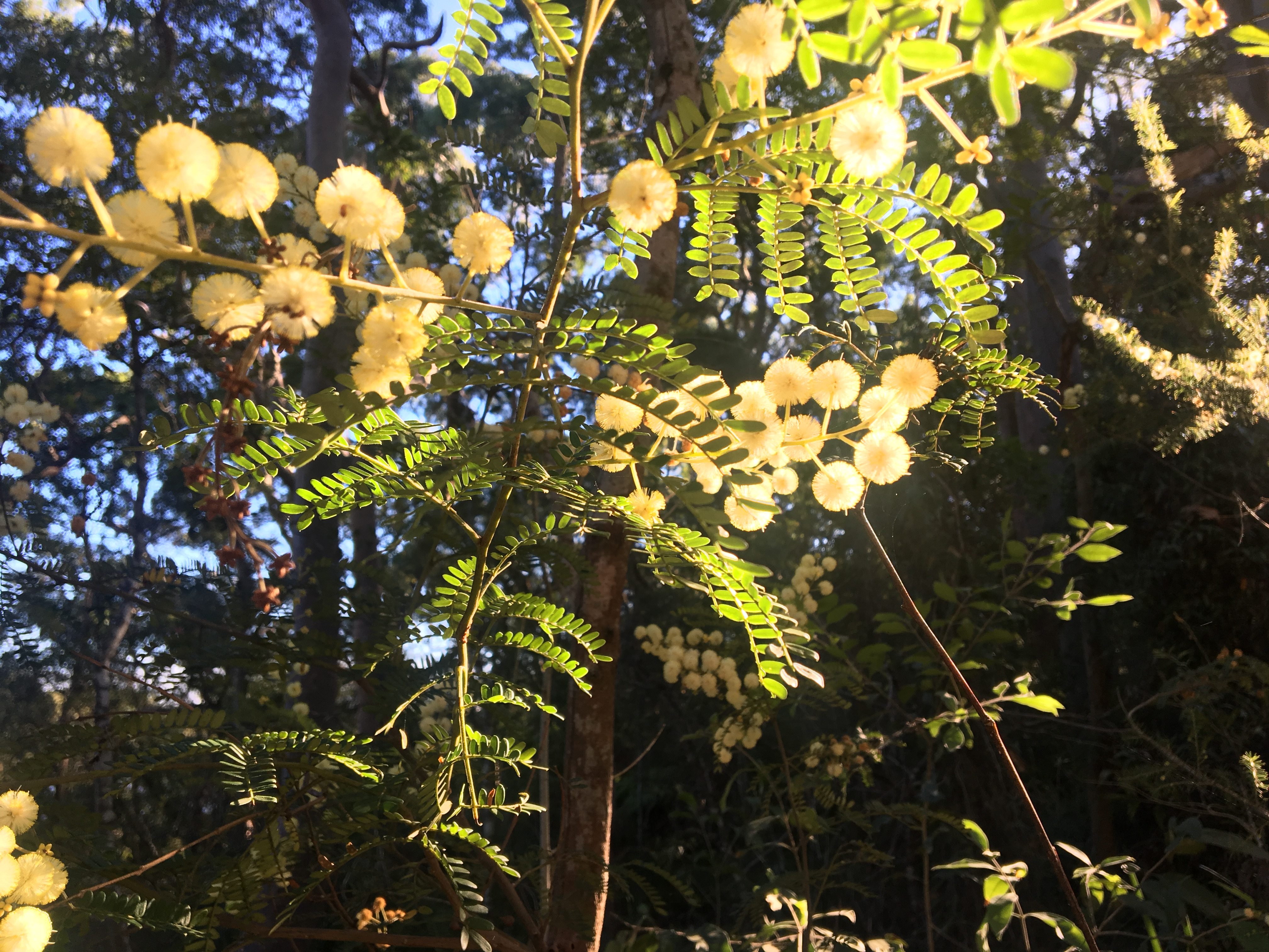 The Australian Wattle growing along the foreshore bushland